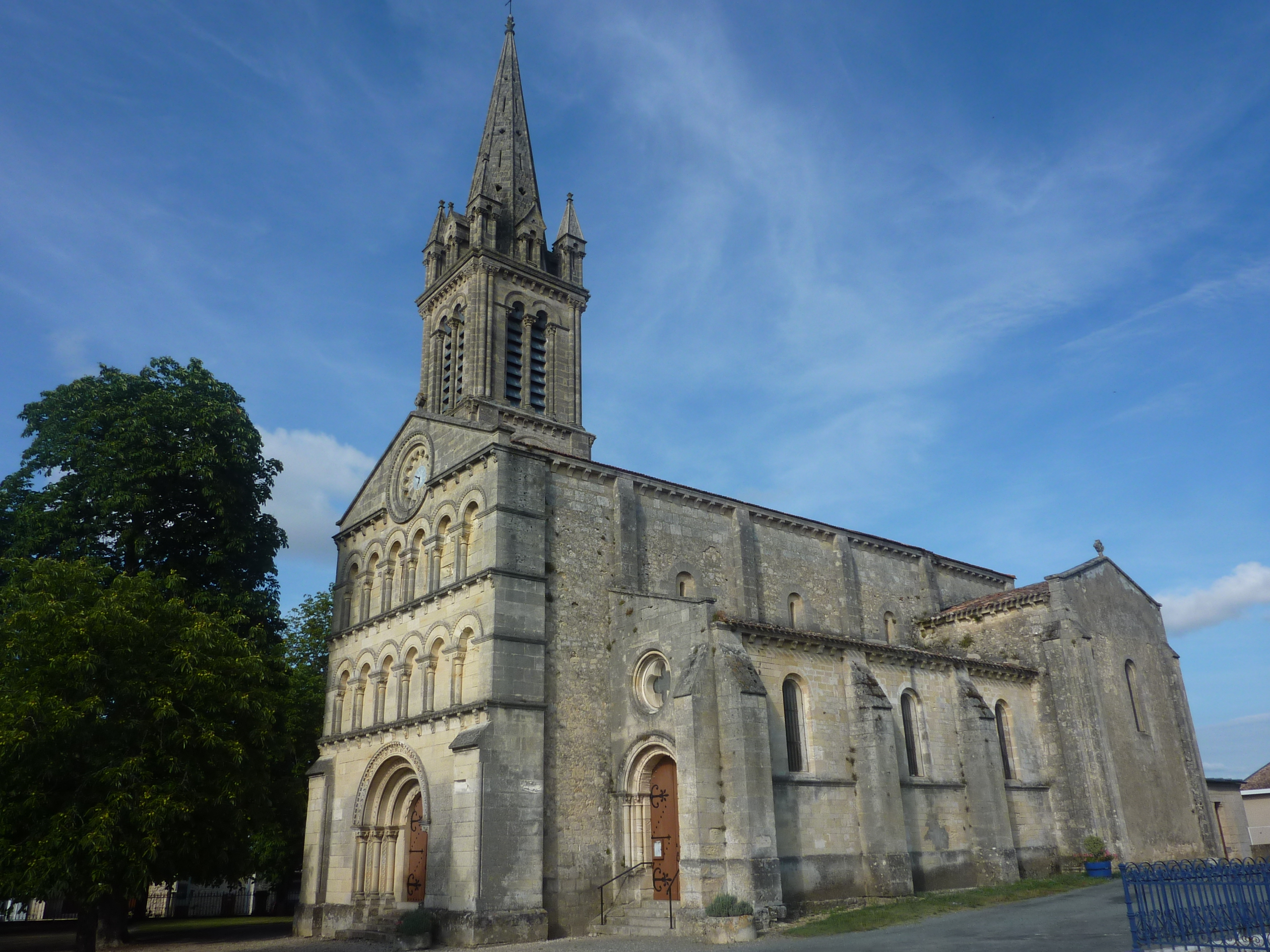 Church of Saint-Christoly-Médoc, Gironde, France